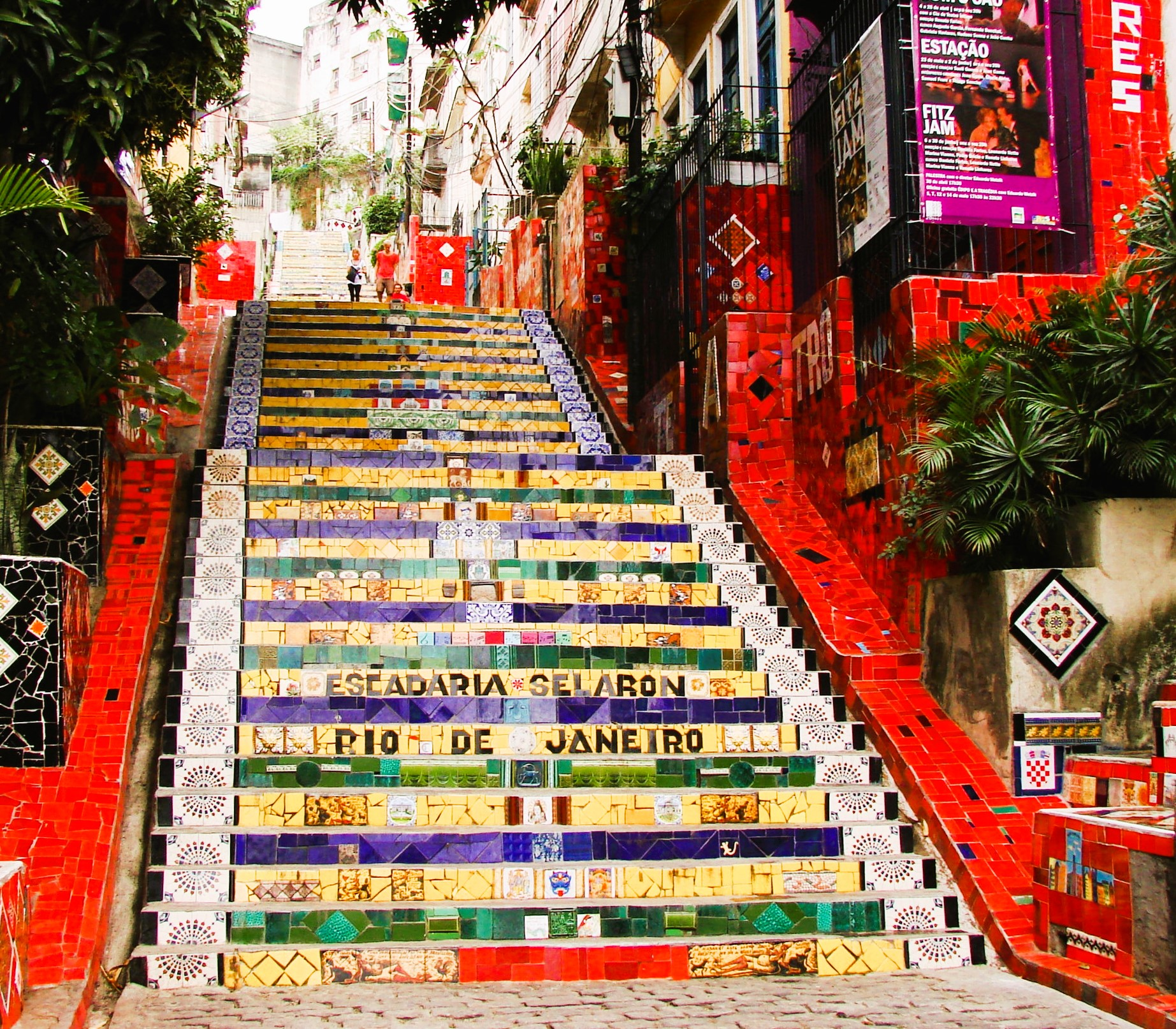 Selaron Steps, Rio de Janeiro, Brazil